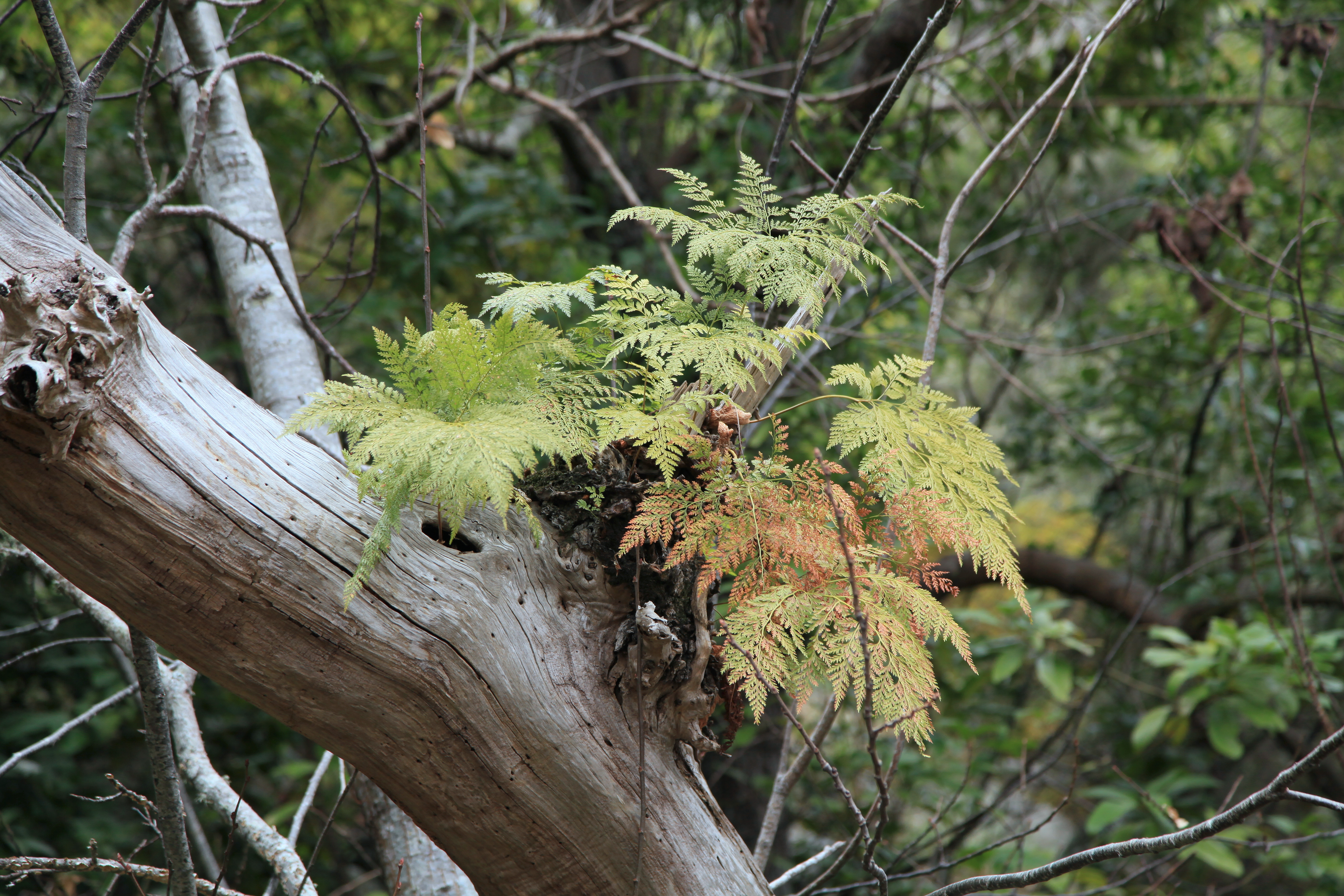 Davallia canariensis growing epiphytic on a dead tree, LP-3 in Breña Alta, La Palma, Canary Island, Spain